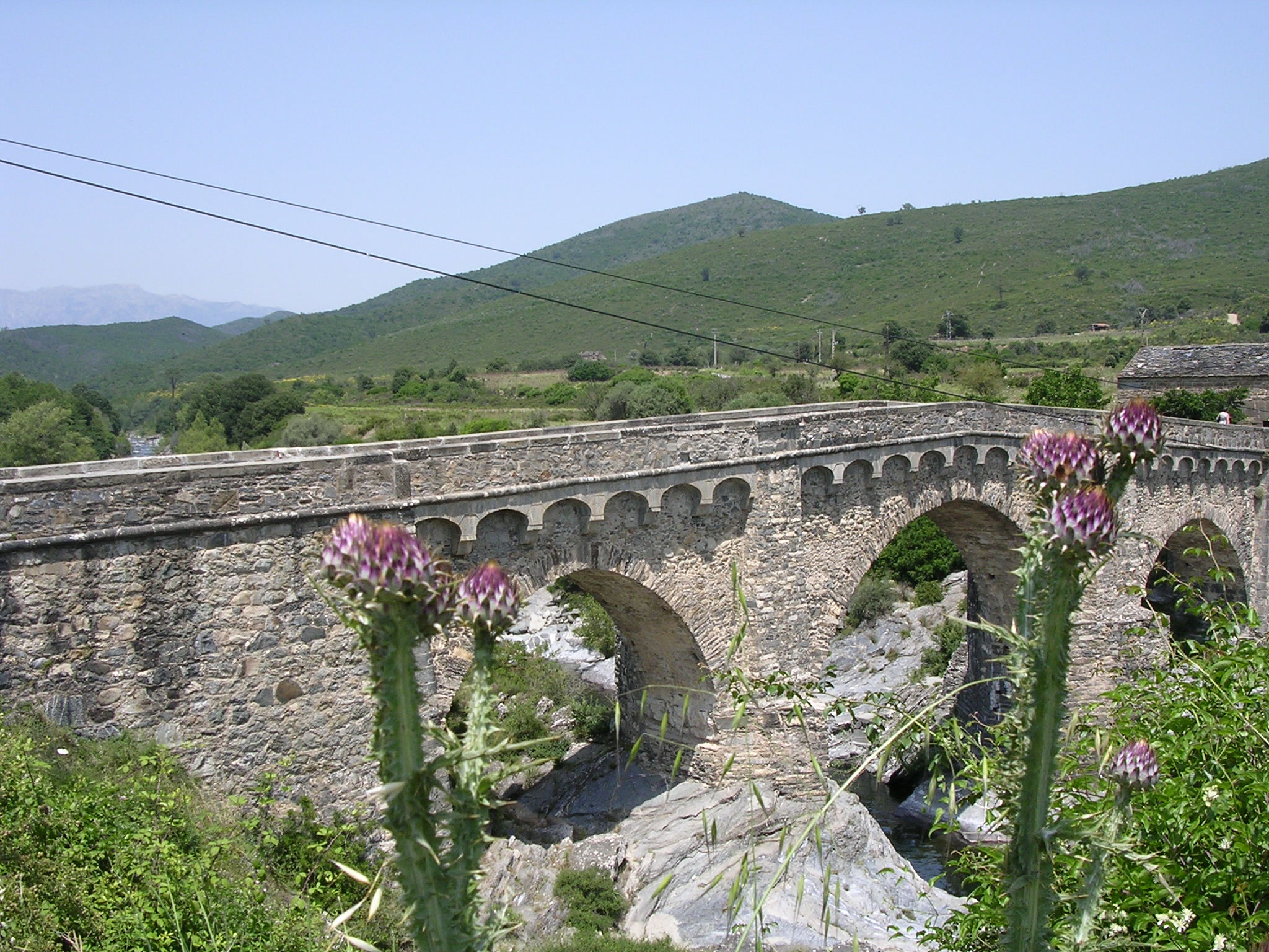 Genoese bridge over the Tavignano river, near Altiani, Corsica.